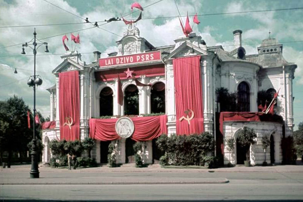 Drama Theater of the Latvian SSR, 1940.